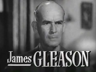 Cropped screenshot of James Gleason from the trailer for the film Meet John Doe